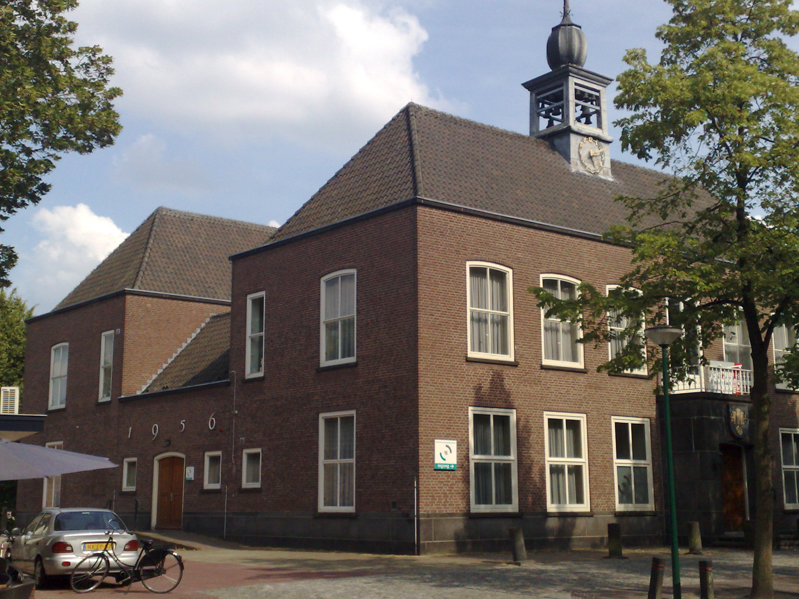 The Old Townhall of Eersel on the market, North Barbant, Netherlands